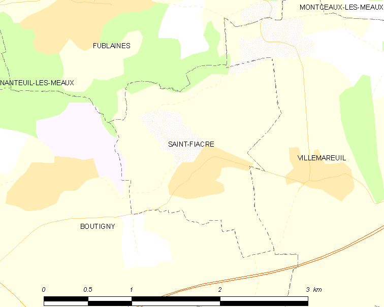 Map of French municipality Saint-Fiacre